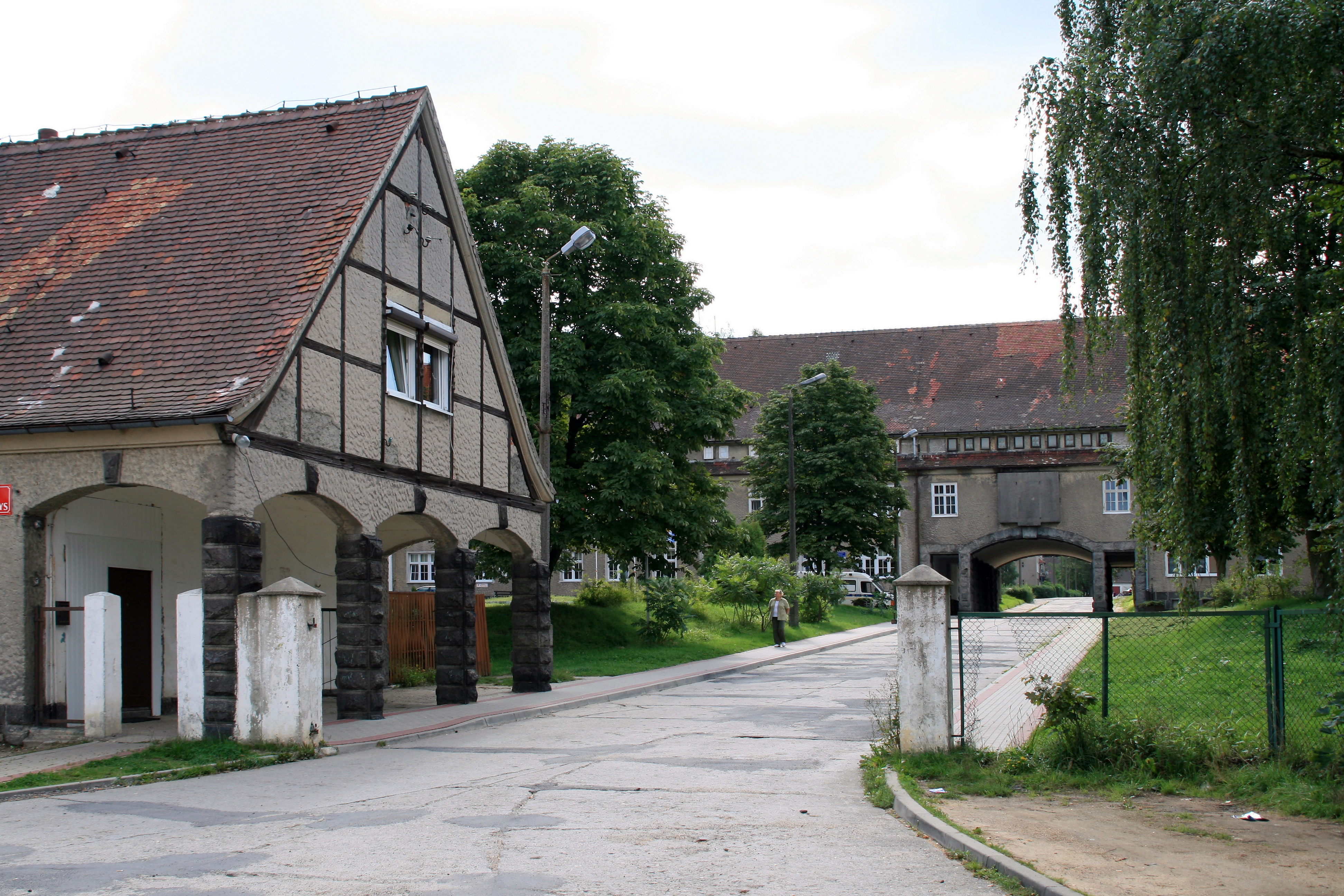 Porajów - former „Zittwerke“